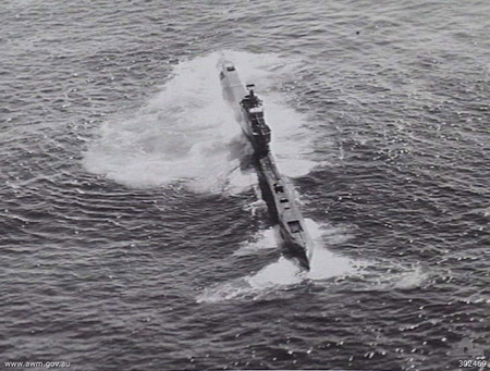 Photograph of British Parthian class submarine HMS Phoenix. She was acting as a a target with the RAN in anti-submarine exercises.